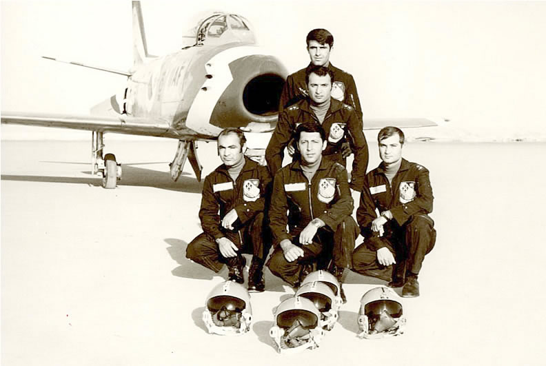 1970 (1349) 5 Ship F-86 LeSabre Capt. Bahram Hooshyar (Leader) Capt. Mahmoud Imanian Capt. Javad Rajabian Capt. Siawash Mokfi Capt. Asghar Abrishamian